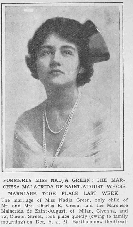 Photo published on the occasion of her marriage, which took place on 6 December, 1922. Published in "The Sketch" illustrated magazine, 13th December 1922, page 28.